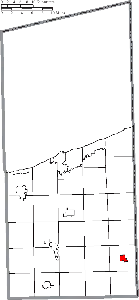 Map of the municipal and township boundaries of Ashtabula County, Ohio, United States, as of the 2000 census, with the location of the village of Andover highlighted. Township borders are shown only in unincorporated areas in order to differentiate incorporated and unincorporated areas more clearly.